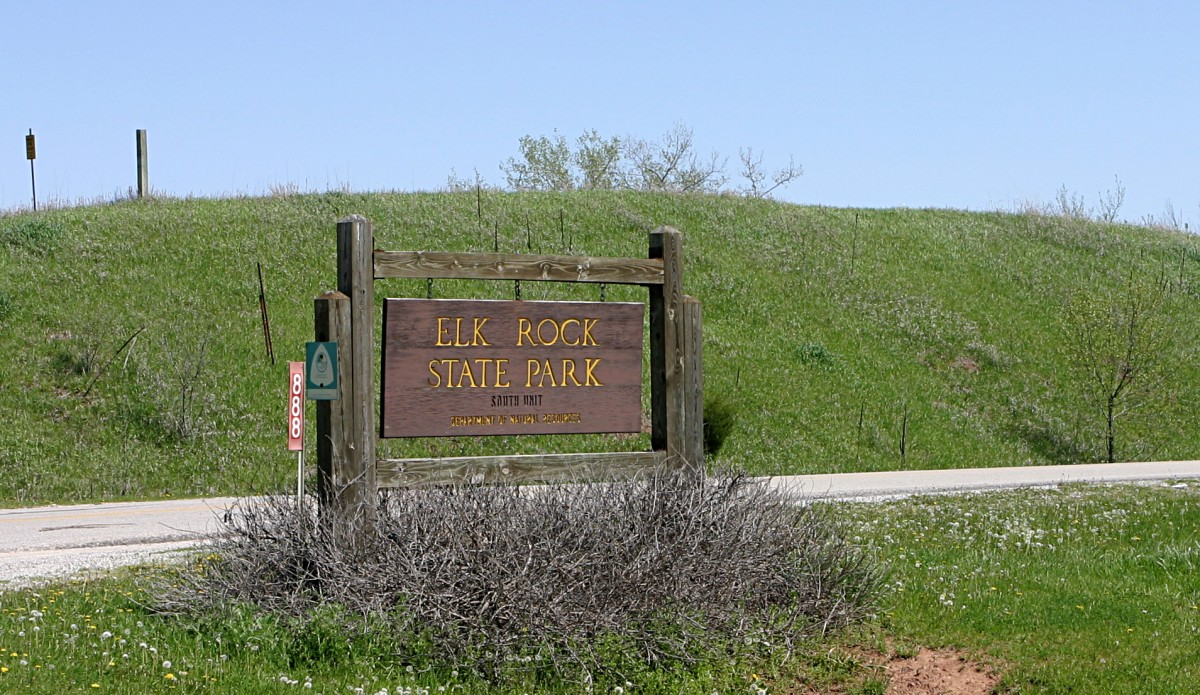 Sign for the south unit of the Elk Rock State Park in Iowa.